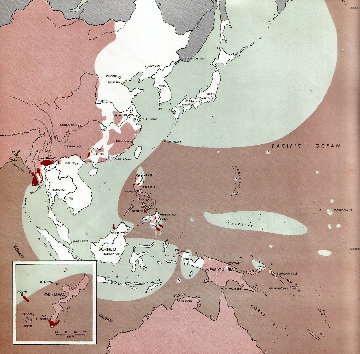 Map of the front against Japan as of 15 June 1945: This map is taken from the source "Atlas of the World Battle Fronts in Semimonthly Phases to August 15th 1945: Supplement to The Biennial report of The Chief of Staff of the United States Army July 1, 1943 to June 30 1945 To the Secretary of War". (See Cover, Forward and Map details)